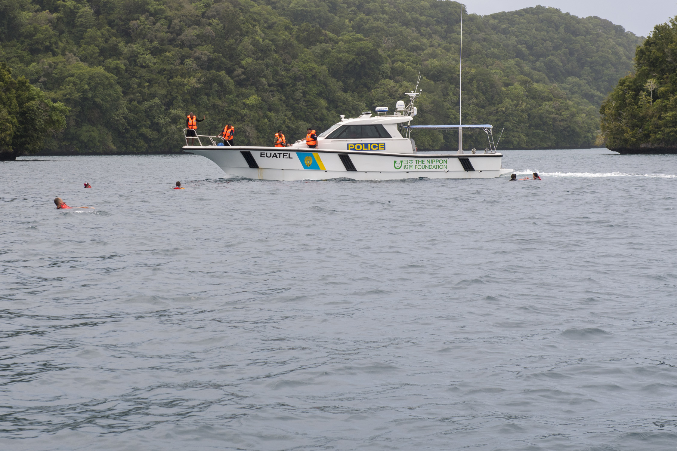 Original caption: “ 180410-N-ZW825-0700 KOROR, Palau (April 10, 2018) Palau National Marine Police prepare to rescue simulated casualty participants during a maritime search and rescue exercise as part of Pacific Partnership 2018 (PP18) mission stop Palau, April 10. PP18’s mission is to work collectively with host and partner nations to enhance regional interoperability and disaster response capabilities, increase stability and security in the region, and foster new and enduring friendships across the Indo-Pacific Region. Pacific Partnership, now in its 13th iteration, is the largest annual multinational humanitarian assistance and disaster relief preparedness mission conducted in the Indo-Pacific. (U.S. Navy photo by Mass Communication Specialist 1st Class Byron C. Linder/Released) ” VIRIN: 180410-N-ZW825-700